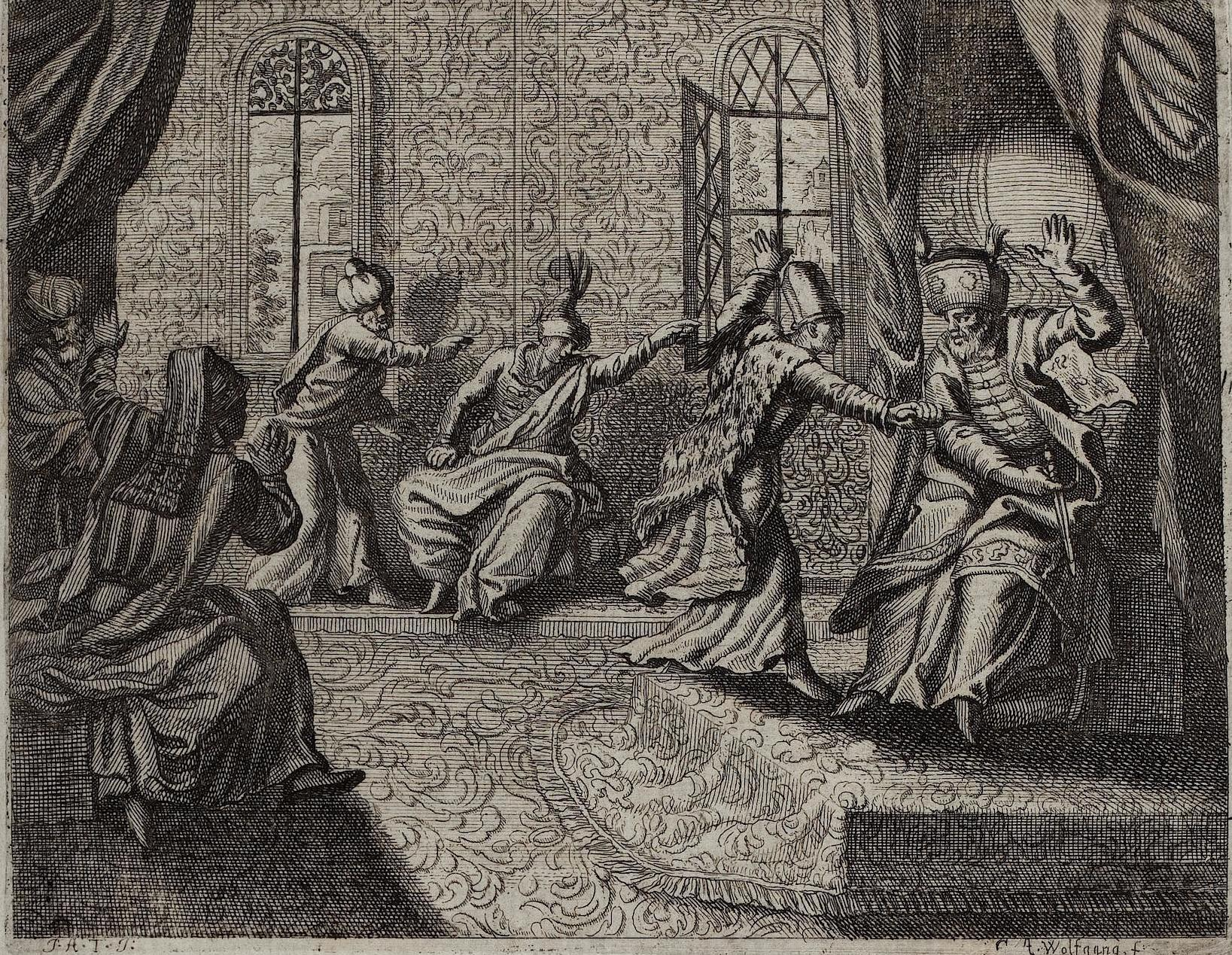 Rycaut1694 bd1, p. 271 (449). Sokollu. Assassination. 1580